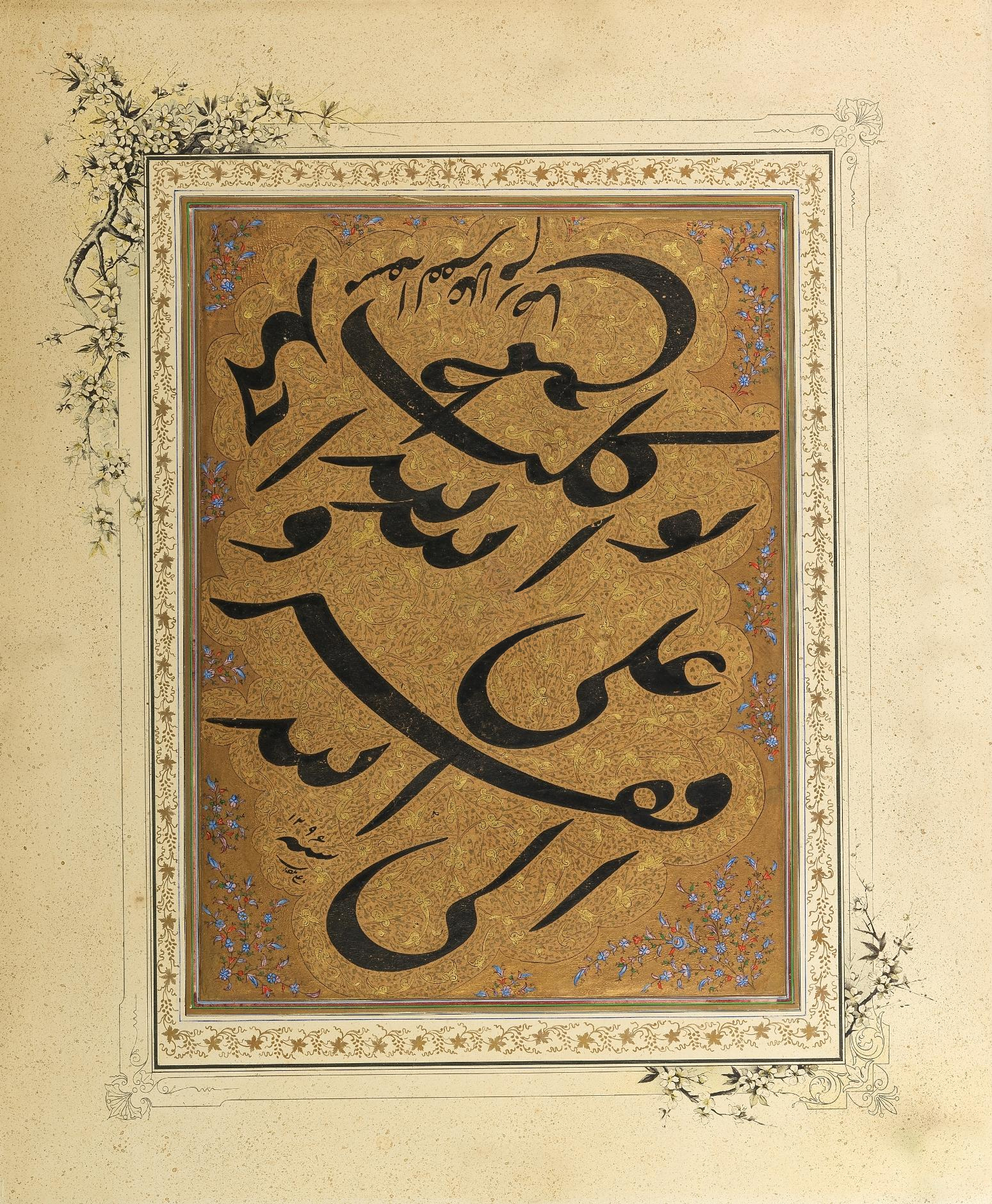 Nastaʿlīq script (Siyah mashq) artwork, Iran - 1879